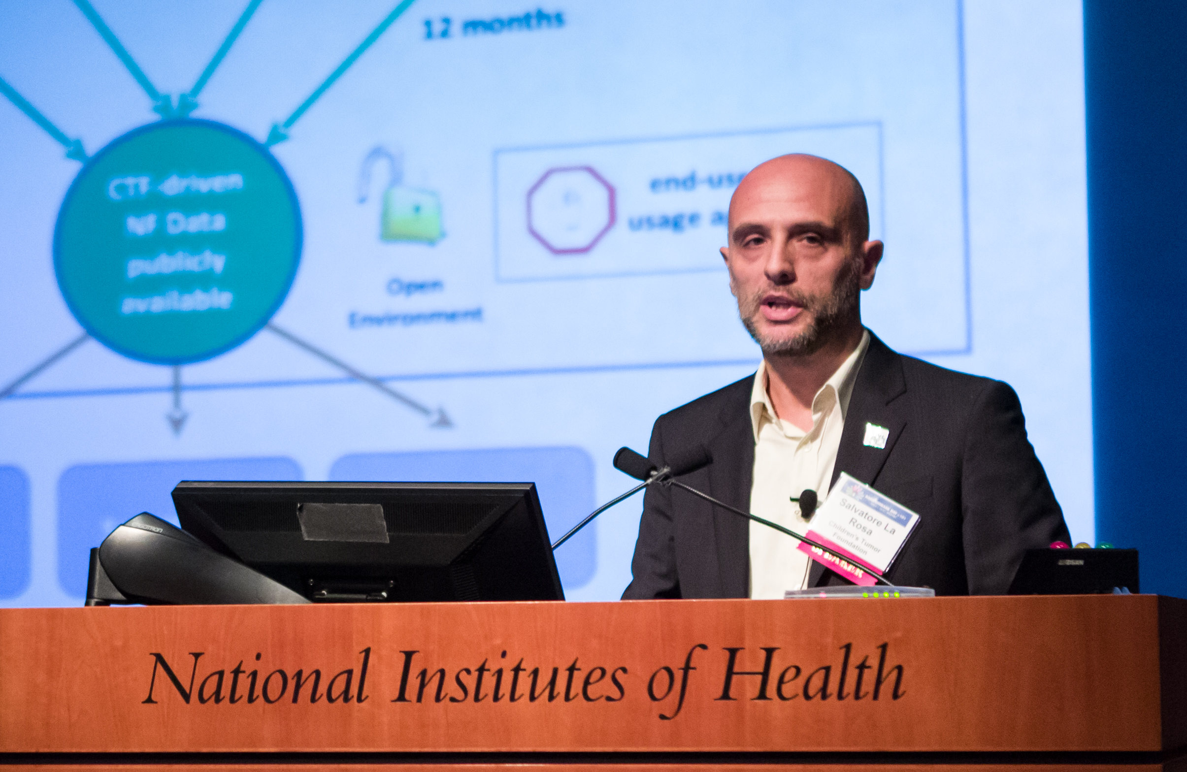 Salvatore La Rosa, Ph.D., Vice President, Research and Development, Children’s Tumor Foundation speaks at Rare Disease Day at NIH 2018. Credit: Daniel Soñé Photography, LLC